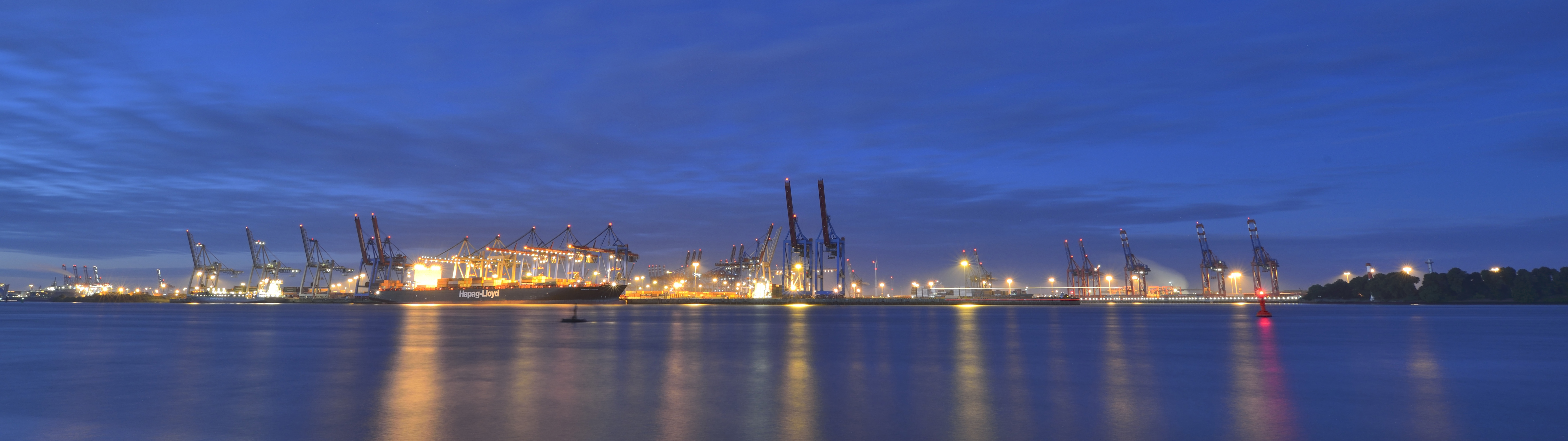 Harbour Hamburg, Germany